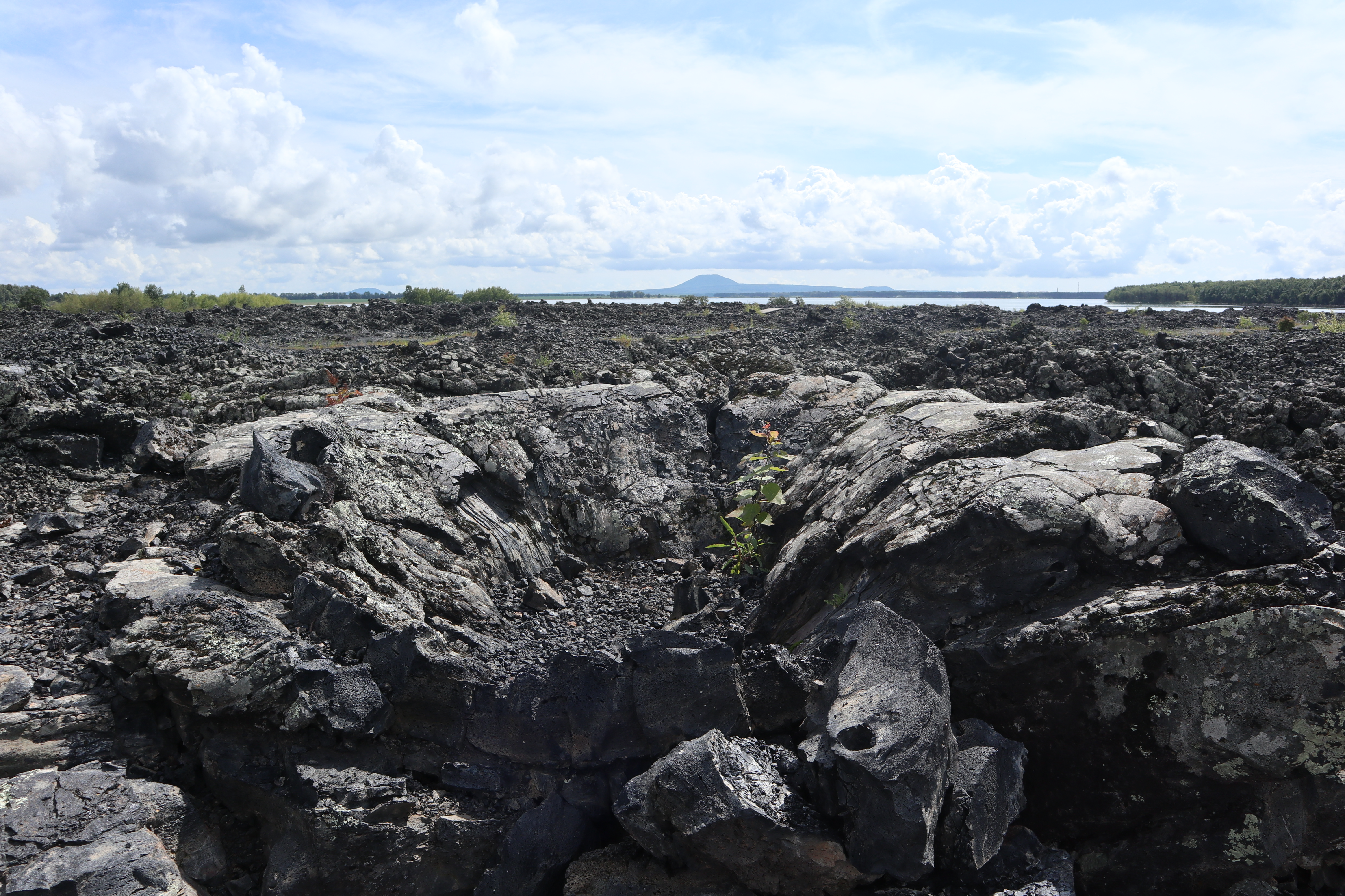 Hornito in Wudalianchi UNESCO Global Geopark, in the distance are the 3rd lake of Wudalianchi and Wudalianchi Volcanic Group.